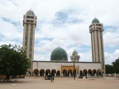 The Mosque in the Medina Baay neighborhood of Kaolack (Kawlax), Senegal. It is the central mosque of the Ibrahimiyya branch of the Tijaniya Sufi order, founded by Ibrahim Niass.